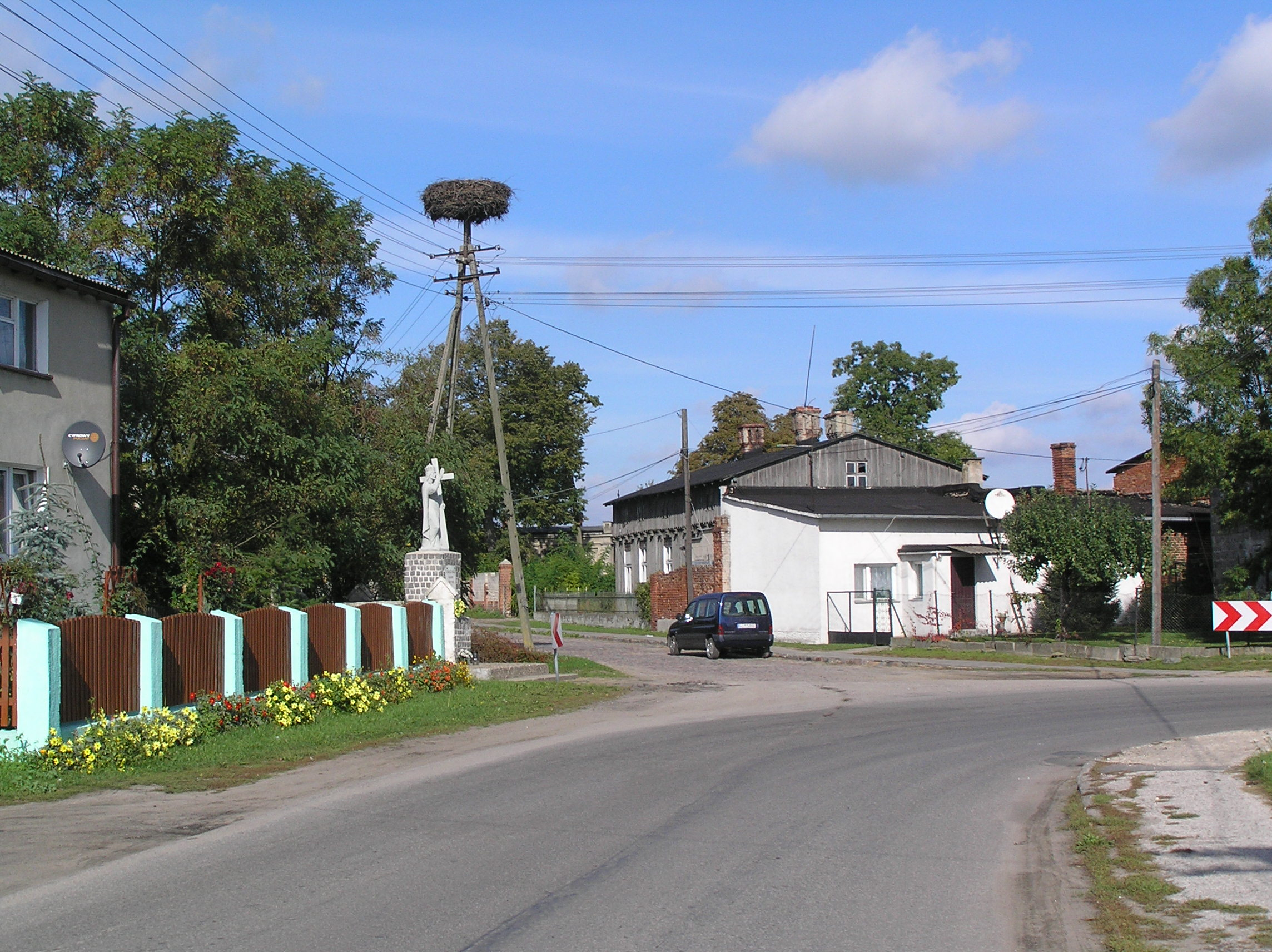 Lulkowo, Toruń county